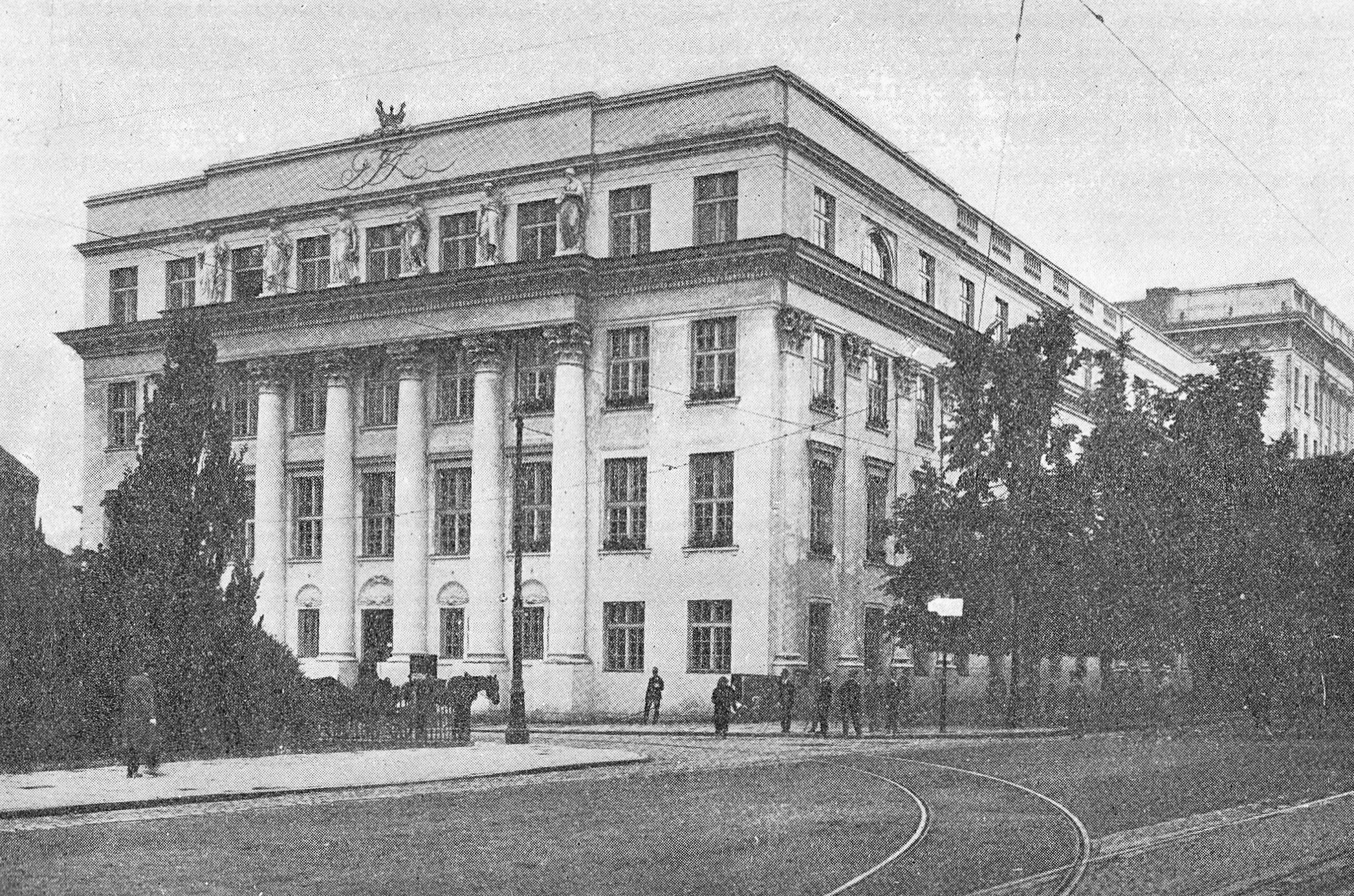 Queen Jadwiga Gymnasium in Three Crosses Square in Warsaw